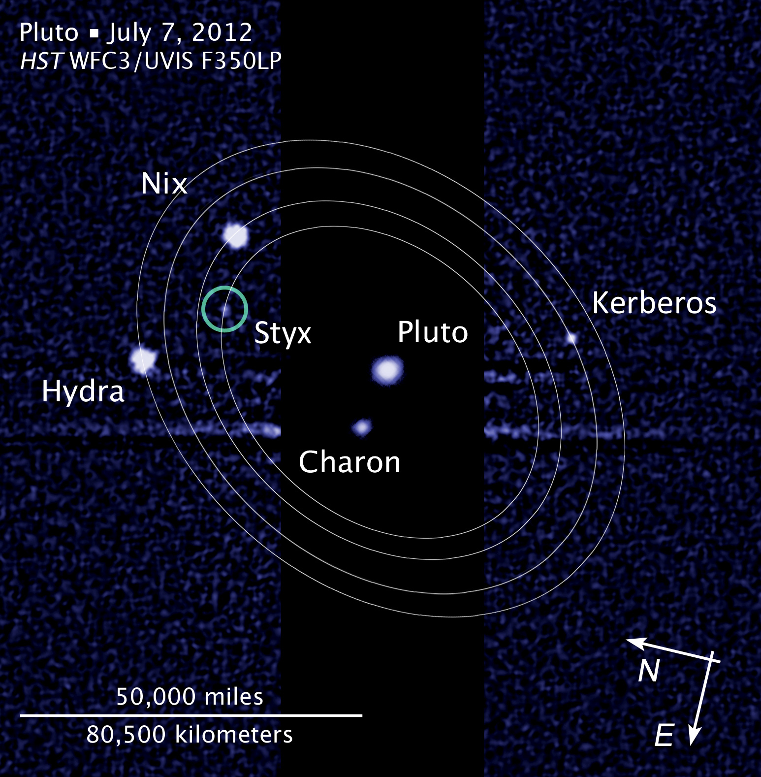 This image, taken by NASA's Hubble Space Telescope, shows five moons orbiting the distant, icy dwarf planet Pluto. The newly discovered small moon, Styx (initially designated P5), is the innermost of the moons found by Hubble over the past seven years. The diagram shows that Styx is in a 58,000-mile-diameter circular orbit around Pluto that is assumed to be co-planar with the other satellites in the system. Though Charon (discovered in 1978) is an even closer moon to Pluto, some astronomers consider the Pluto-Charon pair a "double planet" because Charon's mass is 12 percent of Pluto's mass (by comparison, our Moon is 1.2 percent Earth's mass). This image was taken with Hubble's Wide Field Camera 3 on July 7. Other observations that collectively show the moon's orbital motion were taken on June 26, 27, and 29, 2012 and July 9, 2012. The new data will help scientists in their planning for the July 2015 flyby of Pluto by NASA's New Horizons spacecraft. The original NASA image has been modified by replacing "P4" and "P5" with newer designations "Kerberos" and "Styx", respectively.